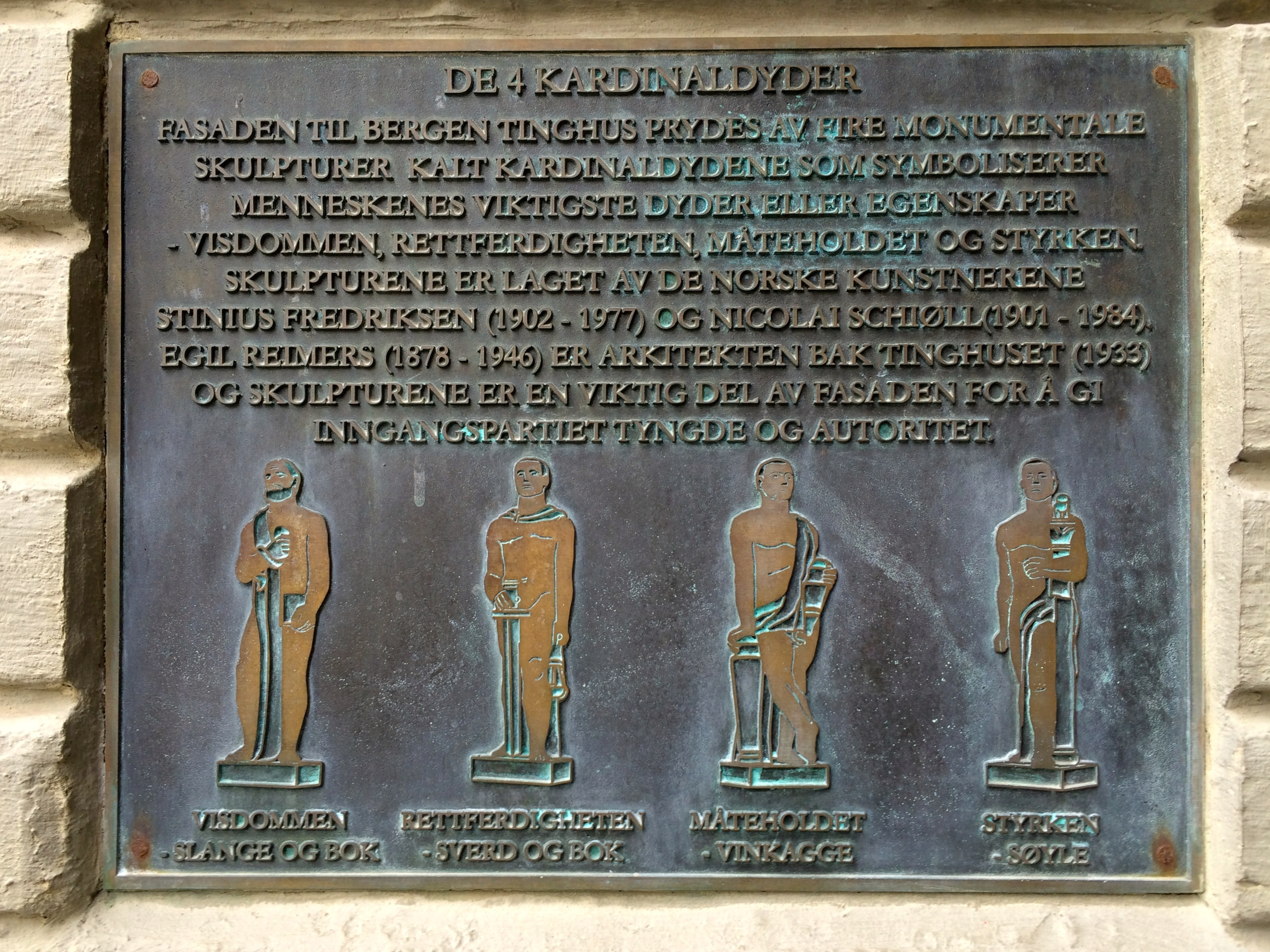 Main entrance of Bergen tinghus (architect Egil Reimers, 1933) in Bergen, Norway. Statues by Stinius Fredriksen and Nicholai Schiøll. 21st September, 2015.